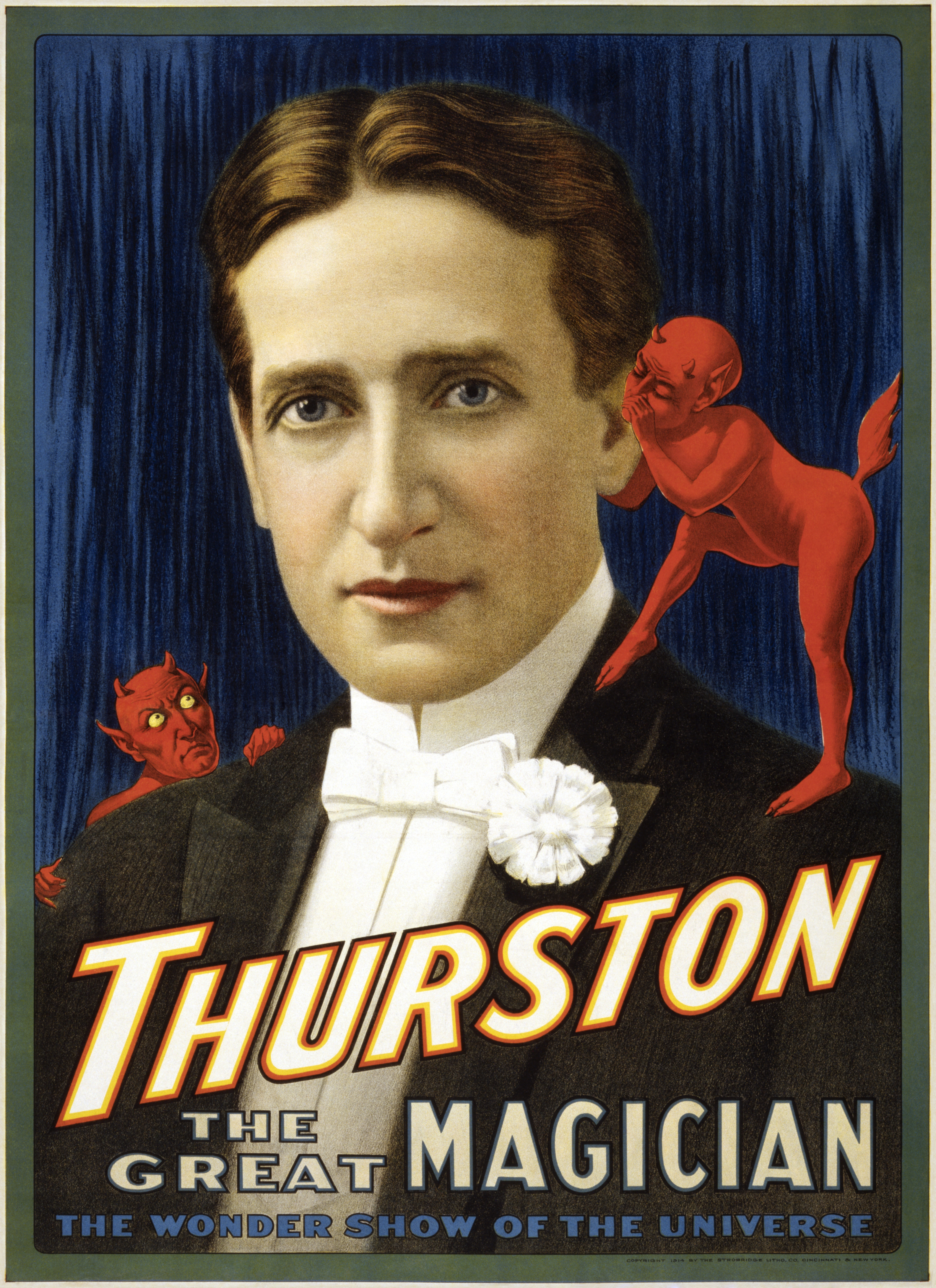 Poster of Howard Thurston, bearing the text "Thurston the Great Magician" and "The Wonder Show of the Universe". Shows him with little devils on his shoulder. Note: Due to the original being covered in tape, a serial number, which the LoC says is "N.Y. no. 14232." was removed from outside the border, as not enough of it remained. This does not affect the appearance significantly, as they'd be almost entirely cropped out anyway at this crop.